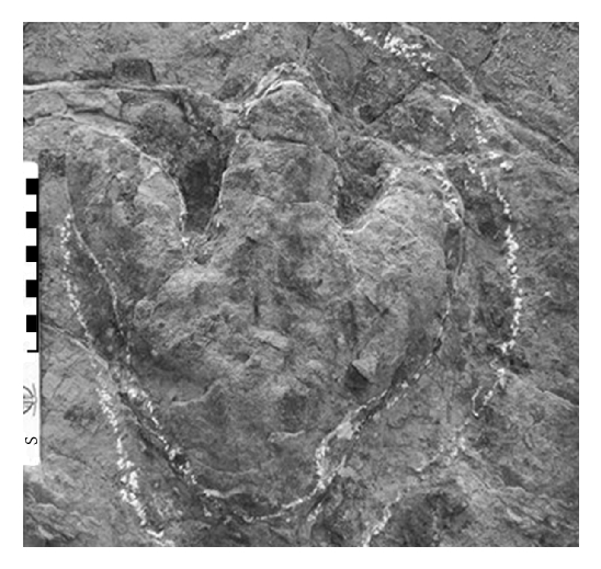 Iguanodontidae footprints in Atexcal, Puebla, Mexico.